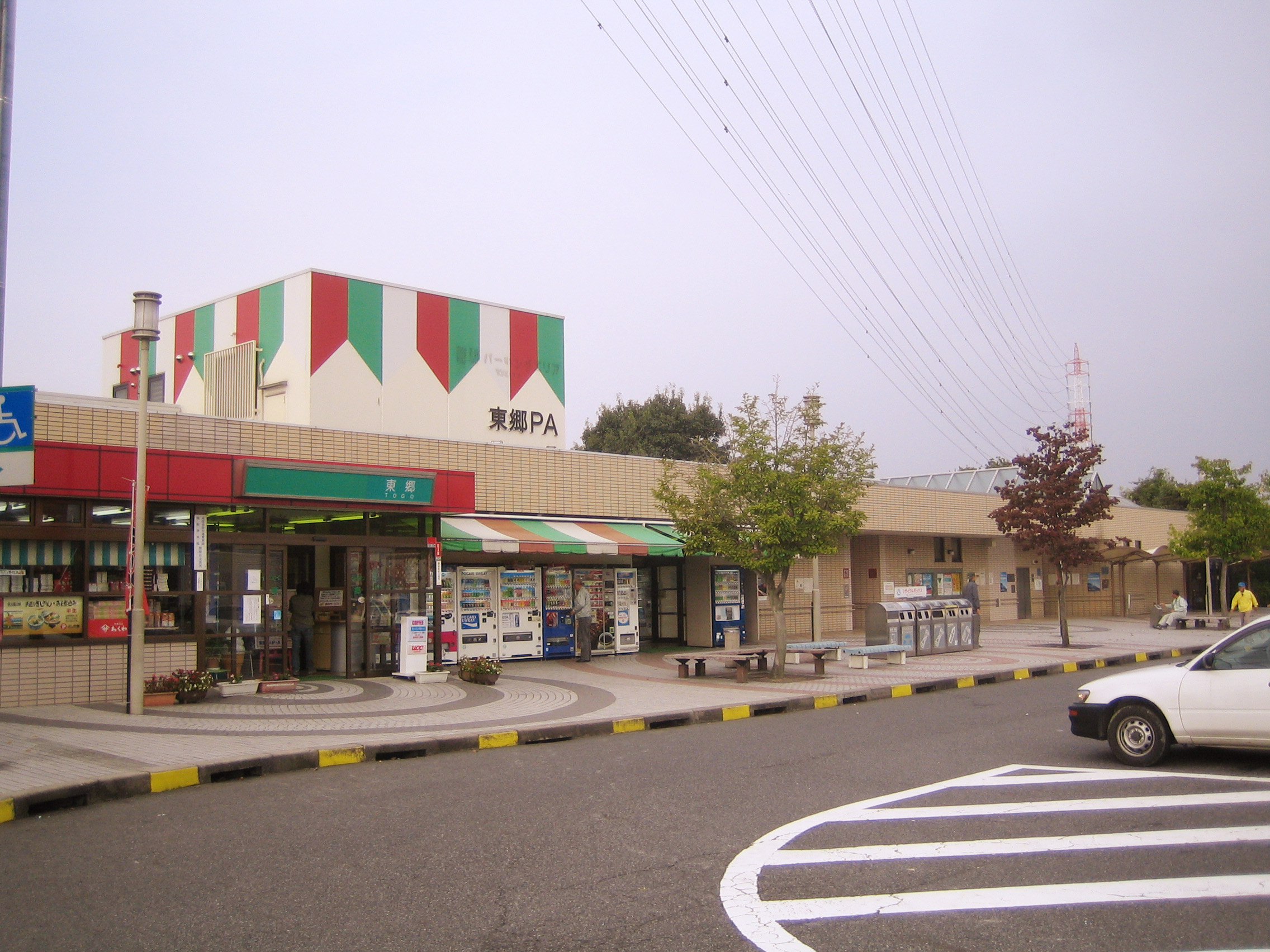 Togo Parking Area (東郷パーキングエリア), at Nisshin, Prefecture|Aichi, Japan